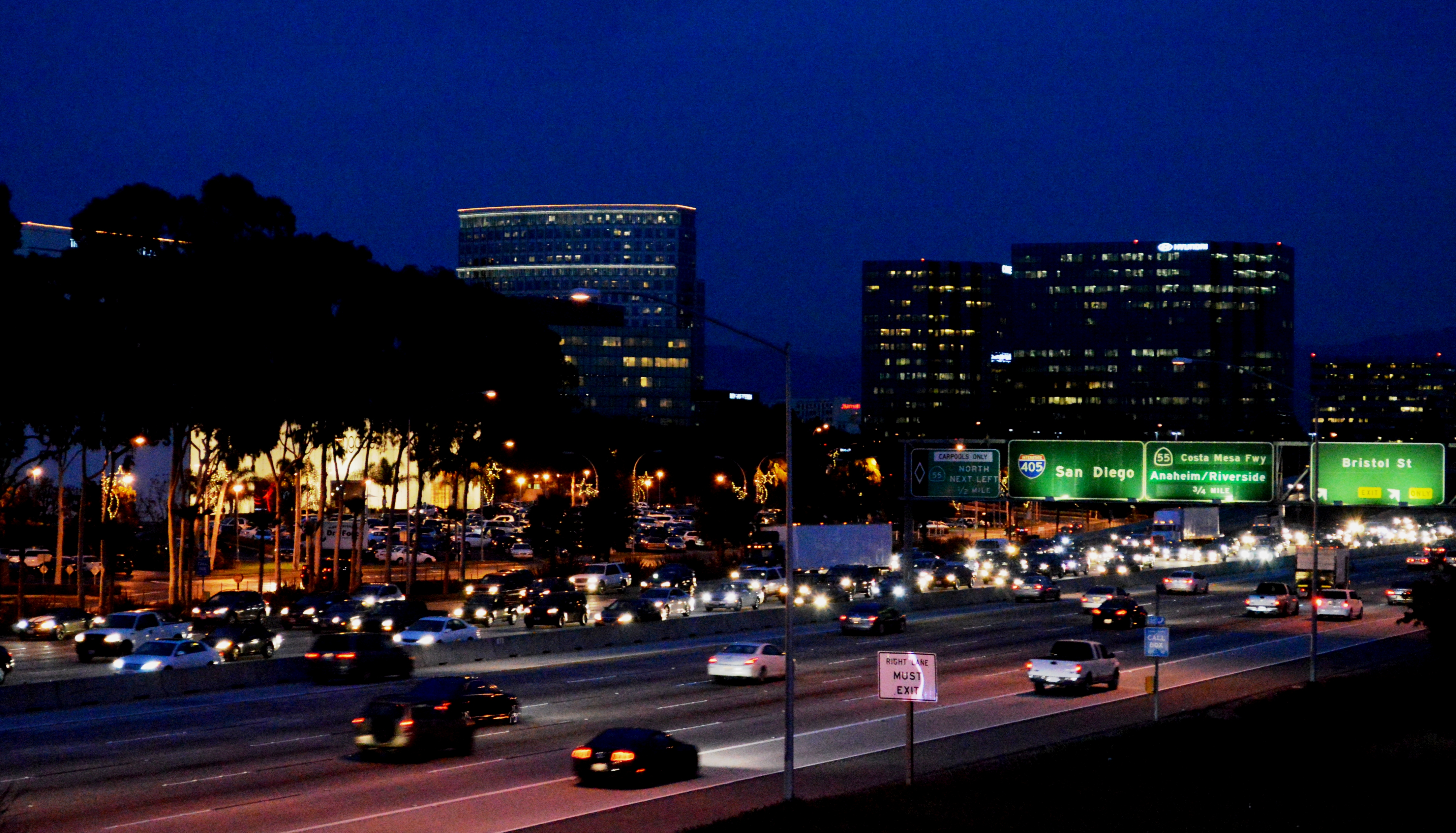 Part of South Coast Plaza (Bloomingdale's in this case) and nearby office buildings as seen from across Interstate 405 (California) near the Bristol exit in Costa Mesa, California, U.S.A.